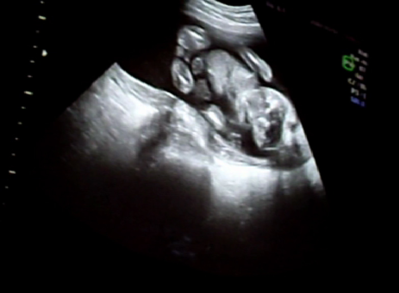 A fetus viewed in a sonogram